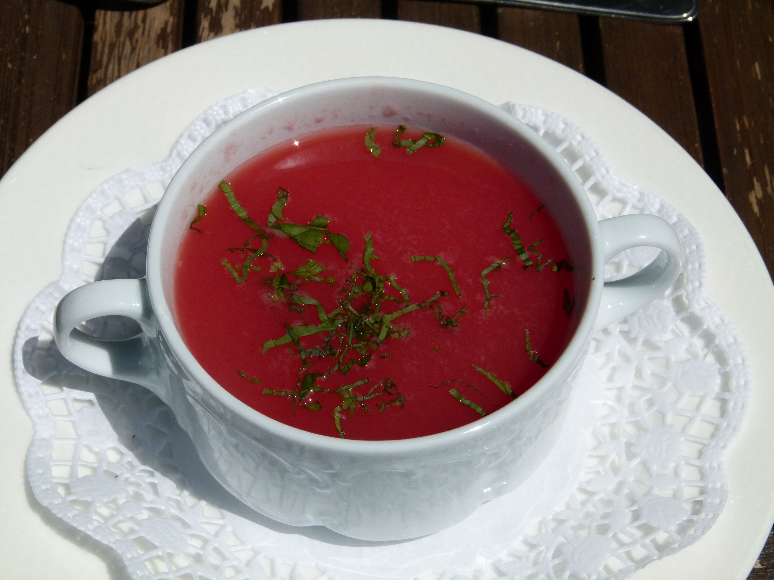 Watermelon soup at Hotel am Münster in Breisach